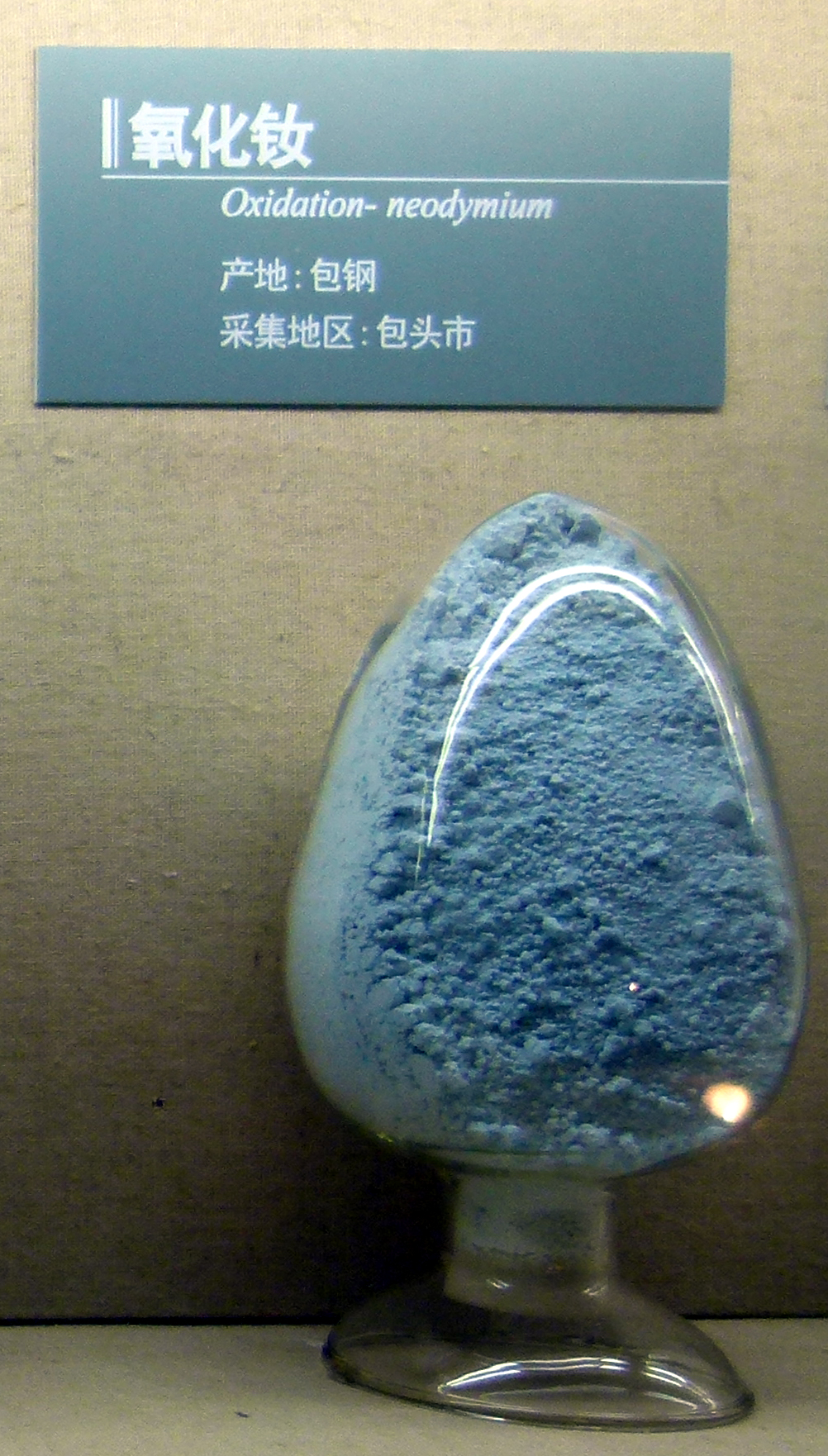 Neodymium Oxide from Baotou, Geology exhibition in Hohhot, Inner Mongolia, china